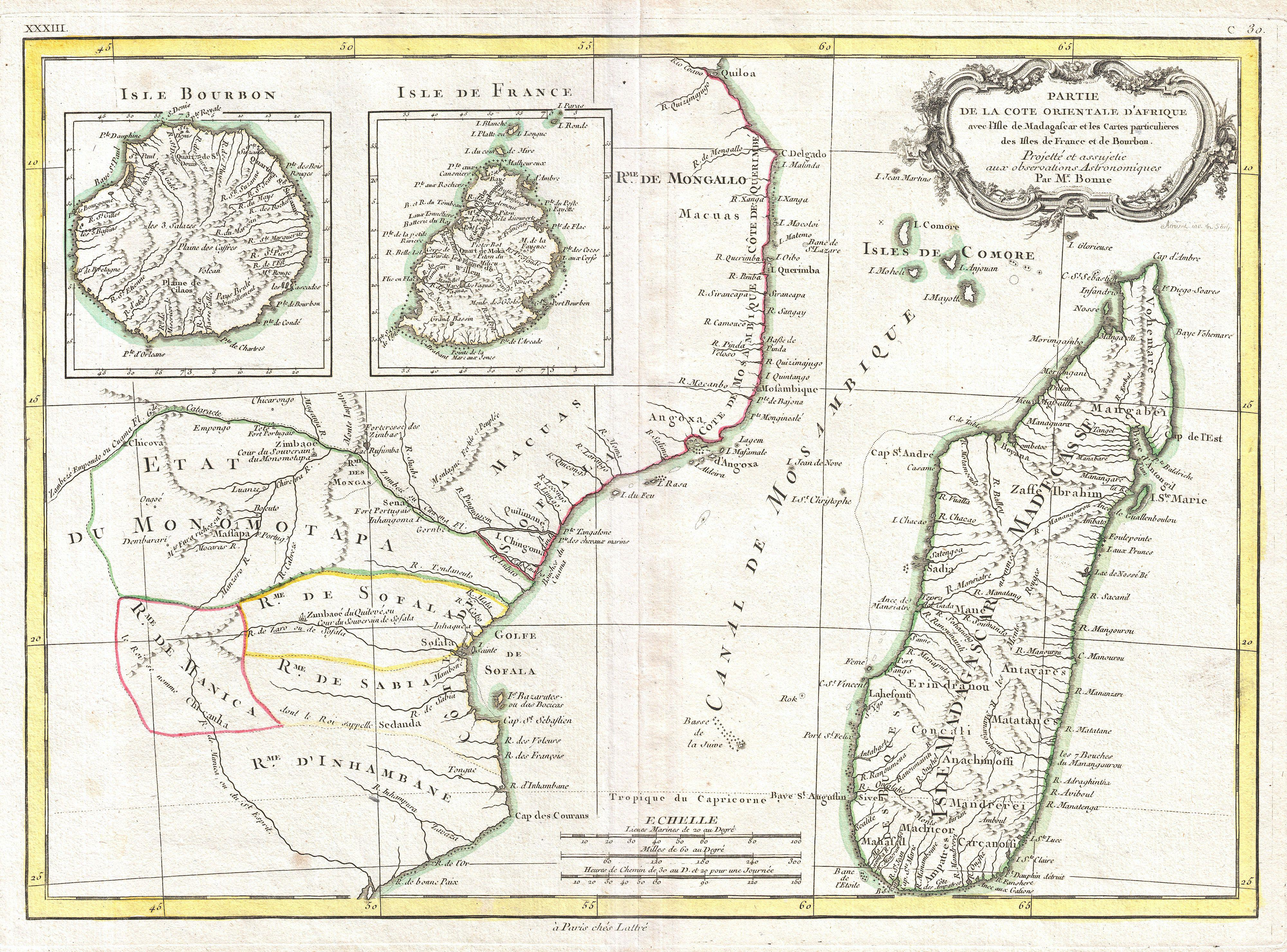 A beautiful example of Rigobert Bonne's c. 1770 decorative map of southeastern Africa and Madagasgar. Roughly covers the territory current incorporated into Mozambique and Madagascar. Also includes inset map of the Isle Bourbon and Isle de France or Mauritius. This region of Africa held a particular fascination for Europeans since the Portuguese first encountered it in the 16th century. At the time, this area was a vast empire called Mutapa or Monomotapa that maintained an active trading network with faraway partners in India and Asia. As the Portuguese presence in the area increased in the 17th century, the Europeans began to note that Monomatapa was particularly rich in gold. They were also impressed with the numerous well crafted stone structures, including the mysterious nearby ruins of Great Zimbabwe. This combination led many Europeans to believe that King Solomon's mines must be hidden in this region. Sure enough our map shows the Mts. Fuca riches en Or in the western parts of Monomotapa. Monomotapa did in fact have rich gold mines in the 16th and 17th centuries, but most have these had been exhausted by the 1700s. A decorative title cartouche appears in the upper right hand quadrant. Drawn by R. Bonne in 1770 for issue as plate no. C. 30 in Jean Lattre's 1776 issue of the Atlas Moderne .